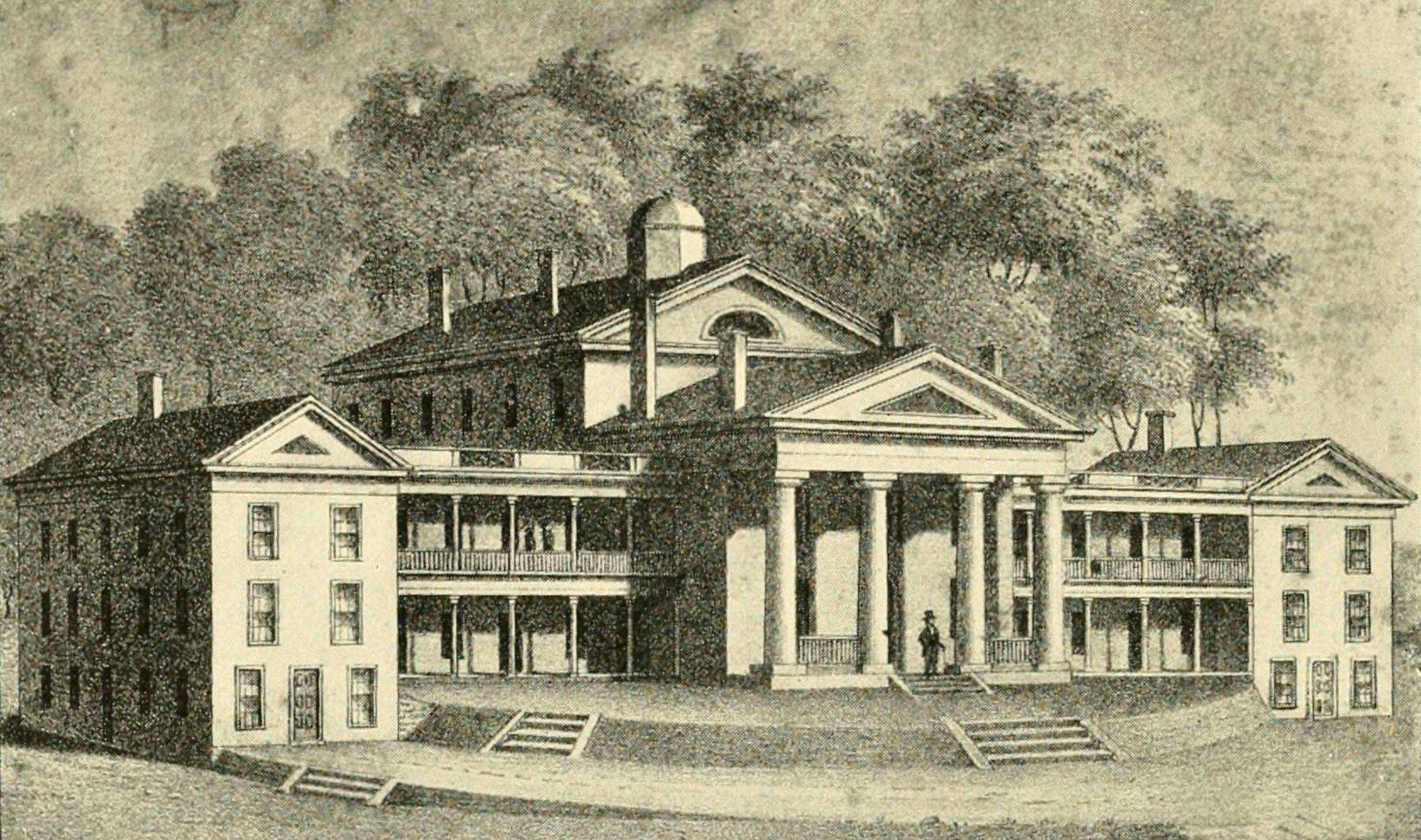 This illustration from “ The history of the town of Amherst, Massachusetts” shows the Mount Pleasant Classical Institute, which operated from 1827-1832.